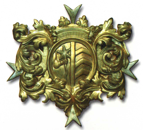 Arms of don Diego Pappalardo